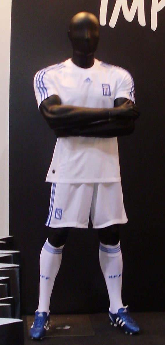 Greece_national_football_team_suit from Athens sports Show 2008 Adidas department